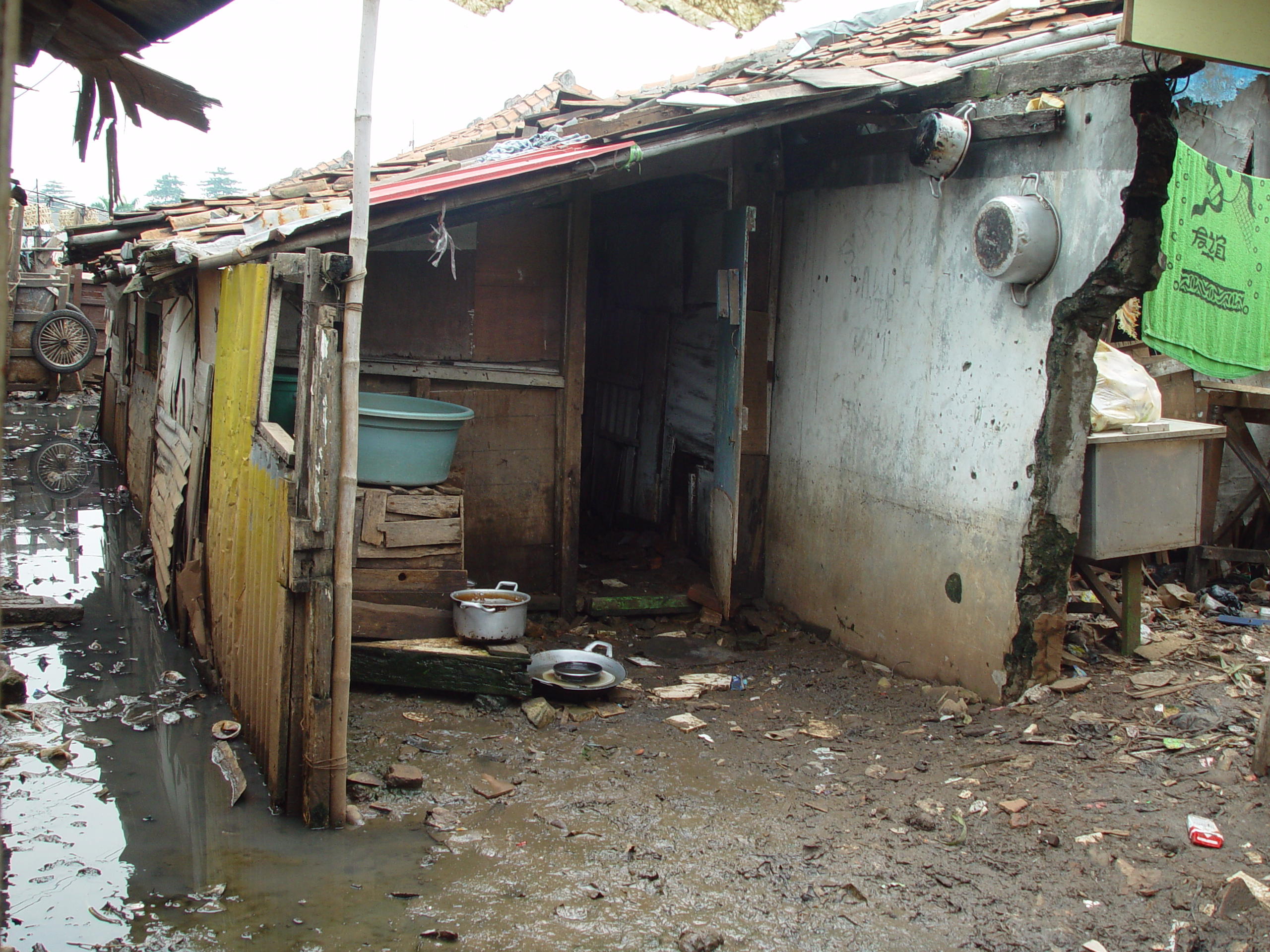 Slum life, Jakarta Indonesia.